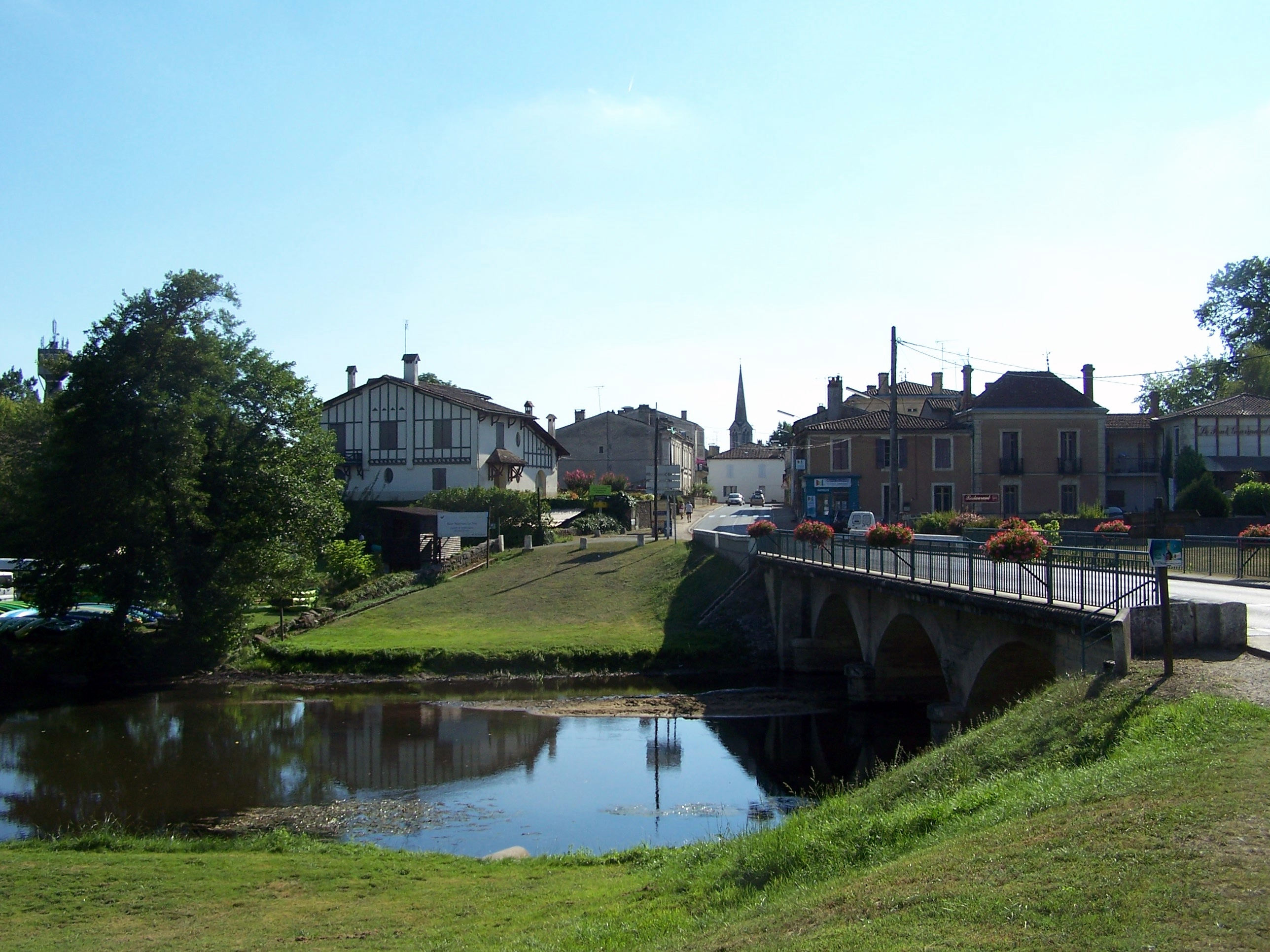 Bridge and leisure base in Villandraut (Gironde, France)